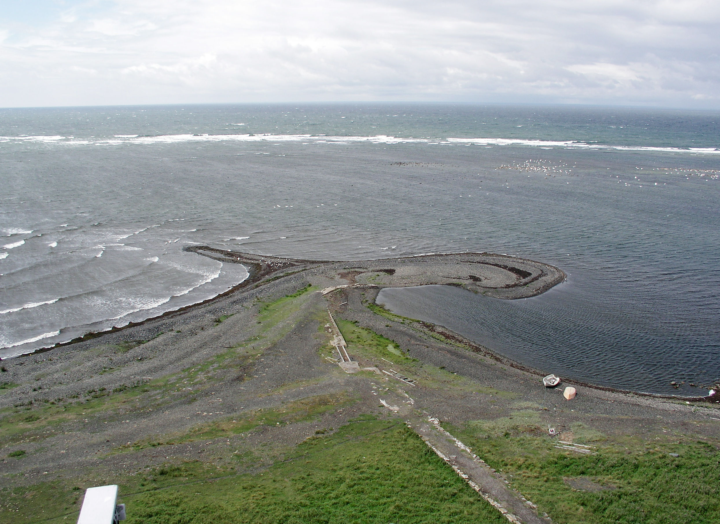 South end the isle of Öland, seen from the lighting house "Långe Jan" (Long John).